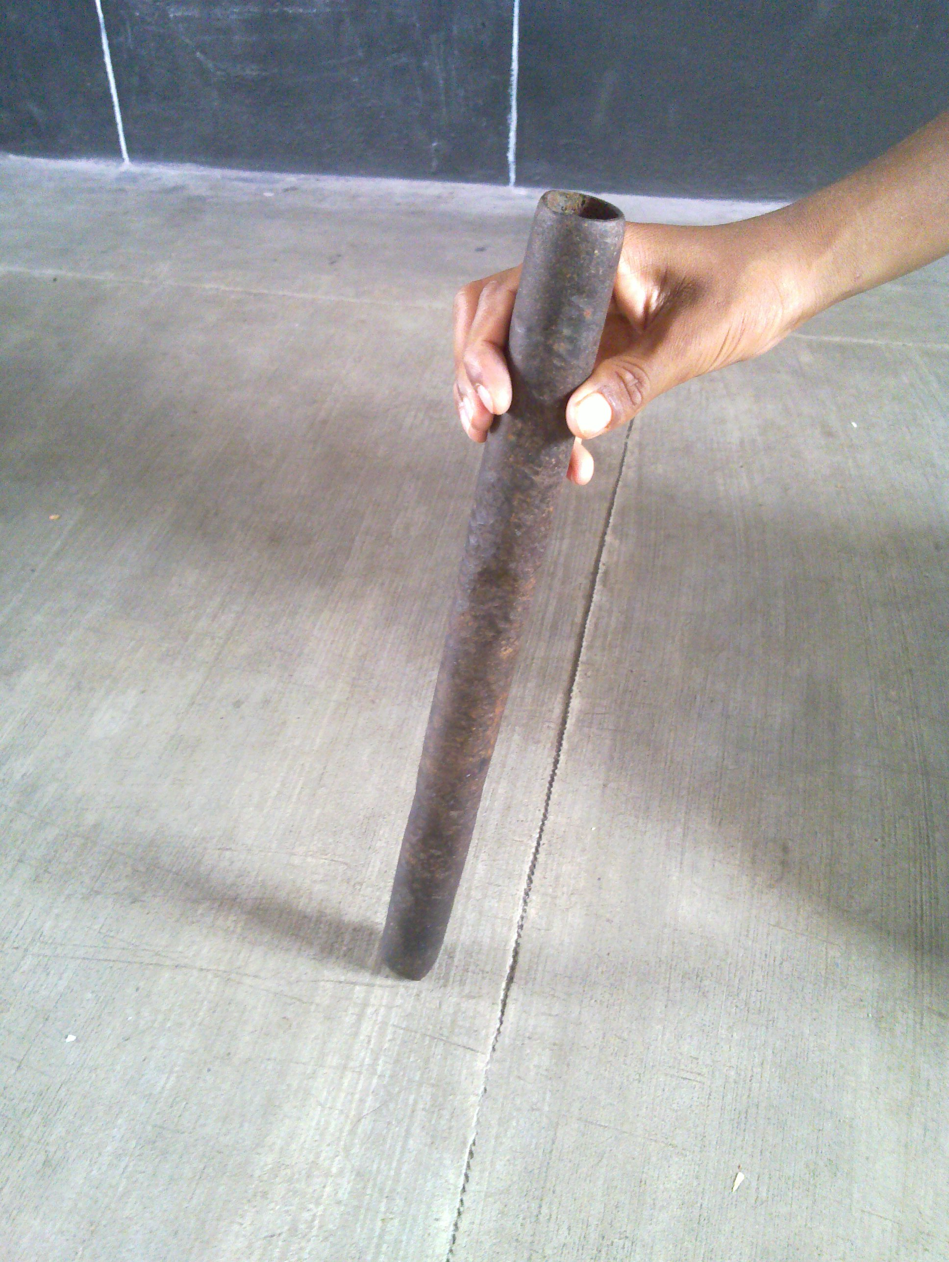 oothu manai is a tool - to make fire in tamilnadu countryside